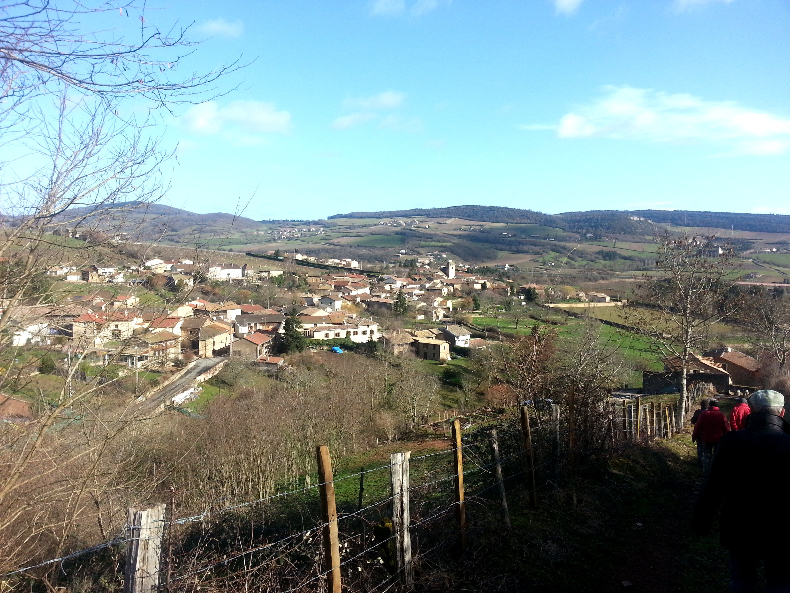 Sologny